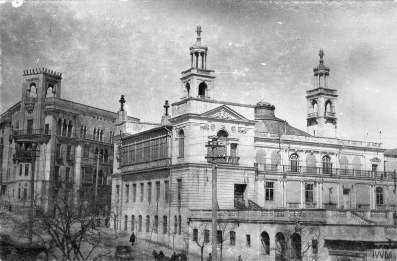 The Club, Baku